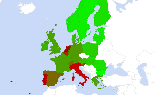 Total pesticide sales per arable land area in kg/ha. The regarded statistics comprise official EUROSTAT data on total pesticide sales of 1 fungicides and bactericides, 2 herbicides, haulm destructors and moss killers, 3 insecticides and acaricides, 4 molluscicides, 5 plant growth regulators, 6 other plant protection products. The map's red-green scale corresponds to (high-low) values that have been generated by simple addition of the (6) respective pesticide amounts and subsequent normalization of the resulting sums by the latest available arable land area data (2010).